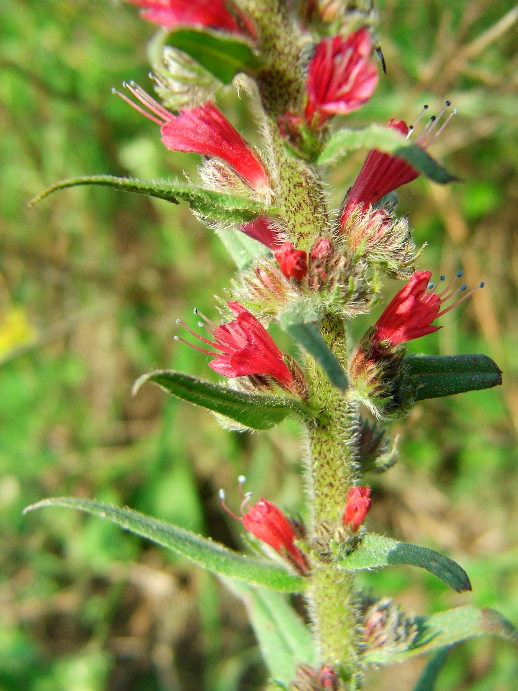 Pontechium maculatum